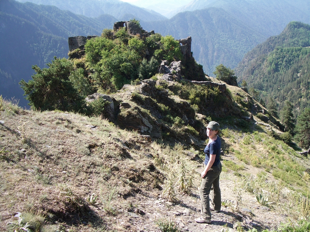 Seemingly impregnable. Actually not.